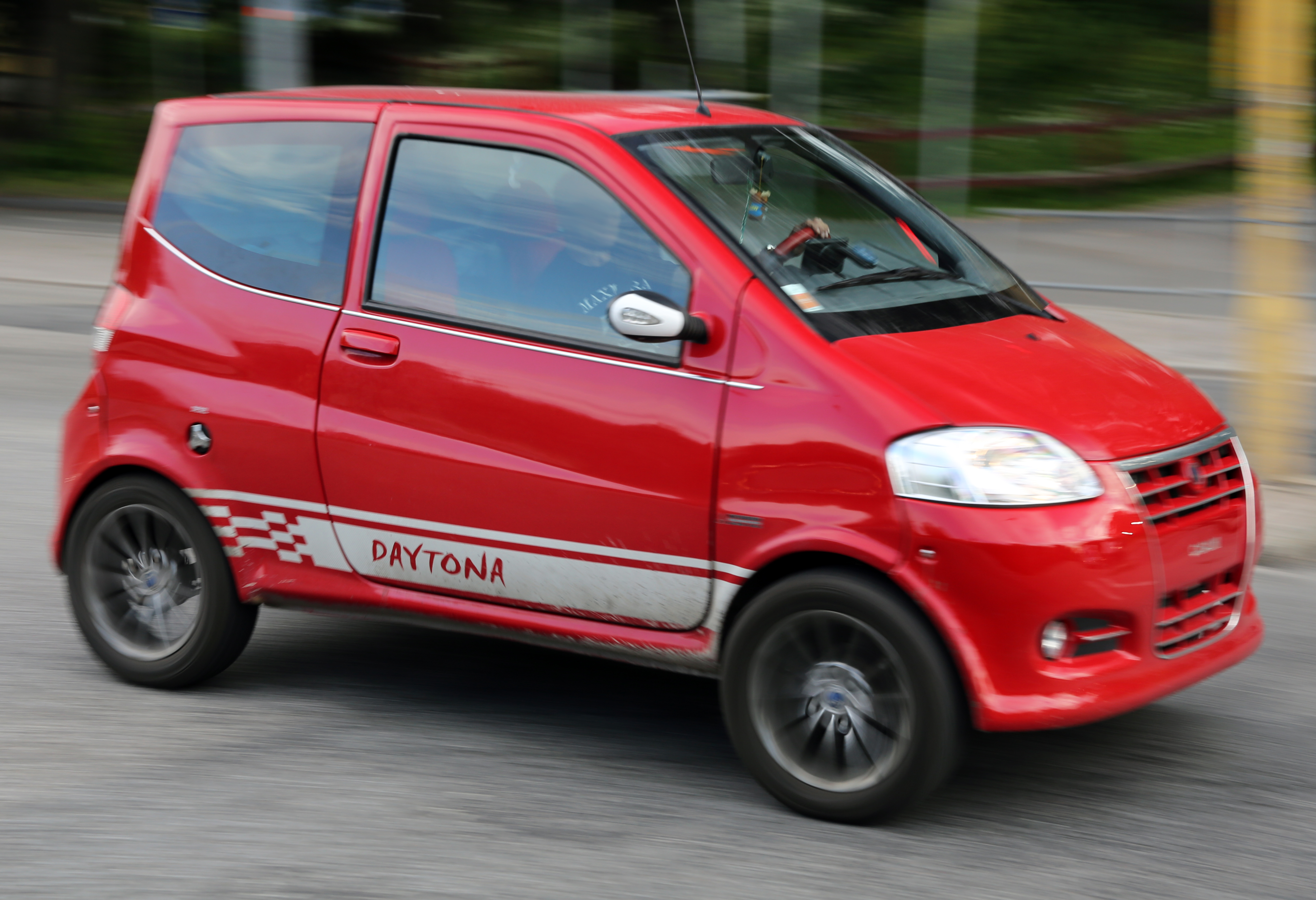 2011 Casalini M10 Daytona (series 72) on the move, 635cc Mitsubishi diesel engine with 3.9kW. Engine number 46432.